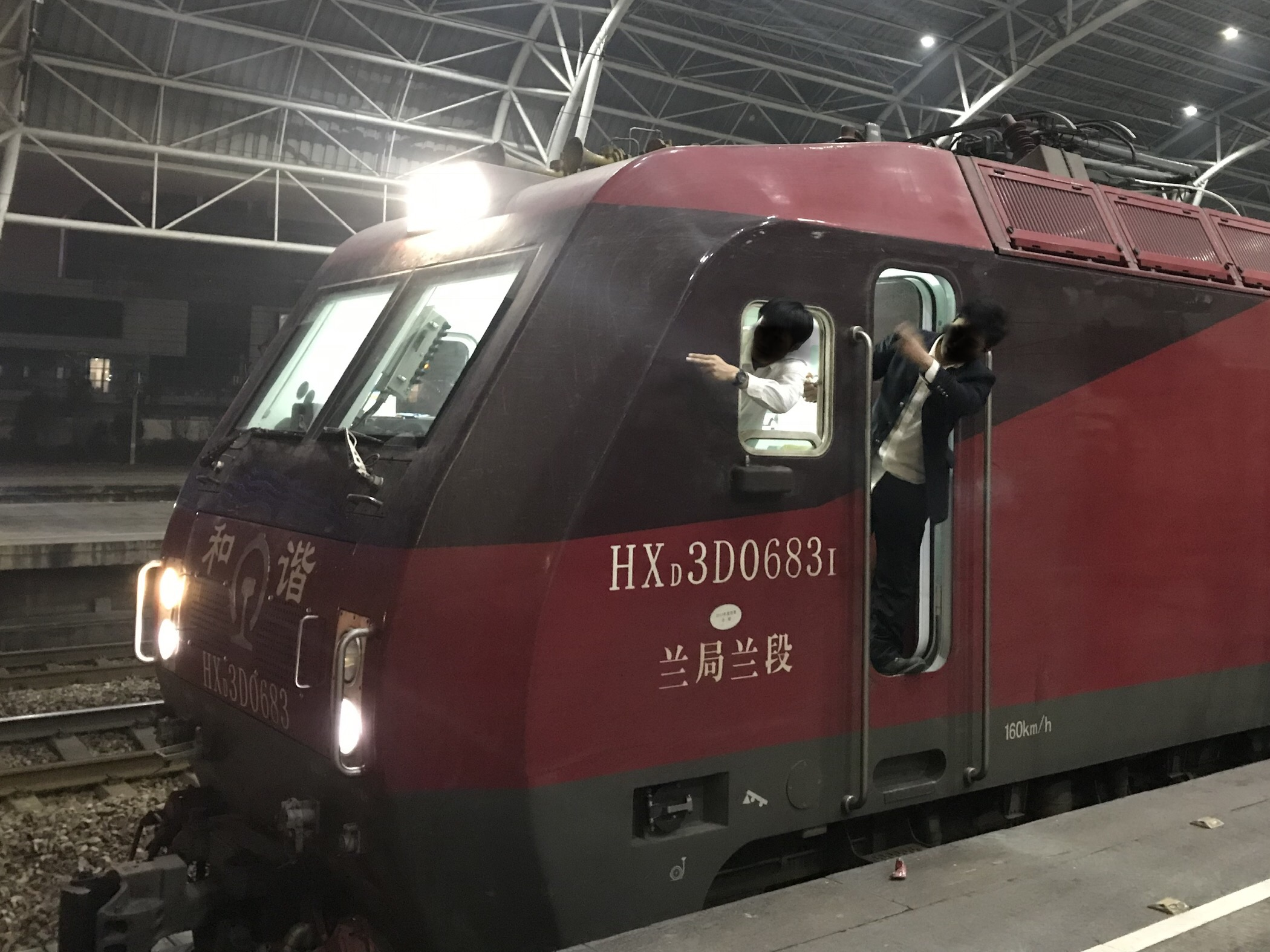 201806 China Railways Point and Call HXD3D-0683